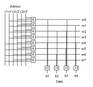 ROM